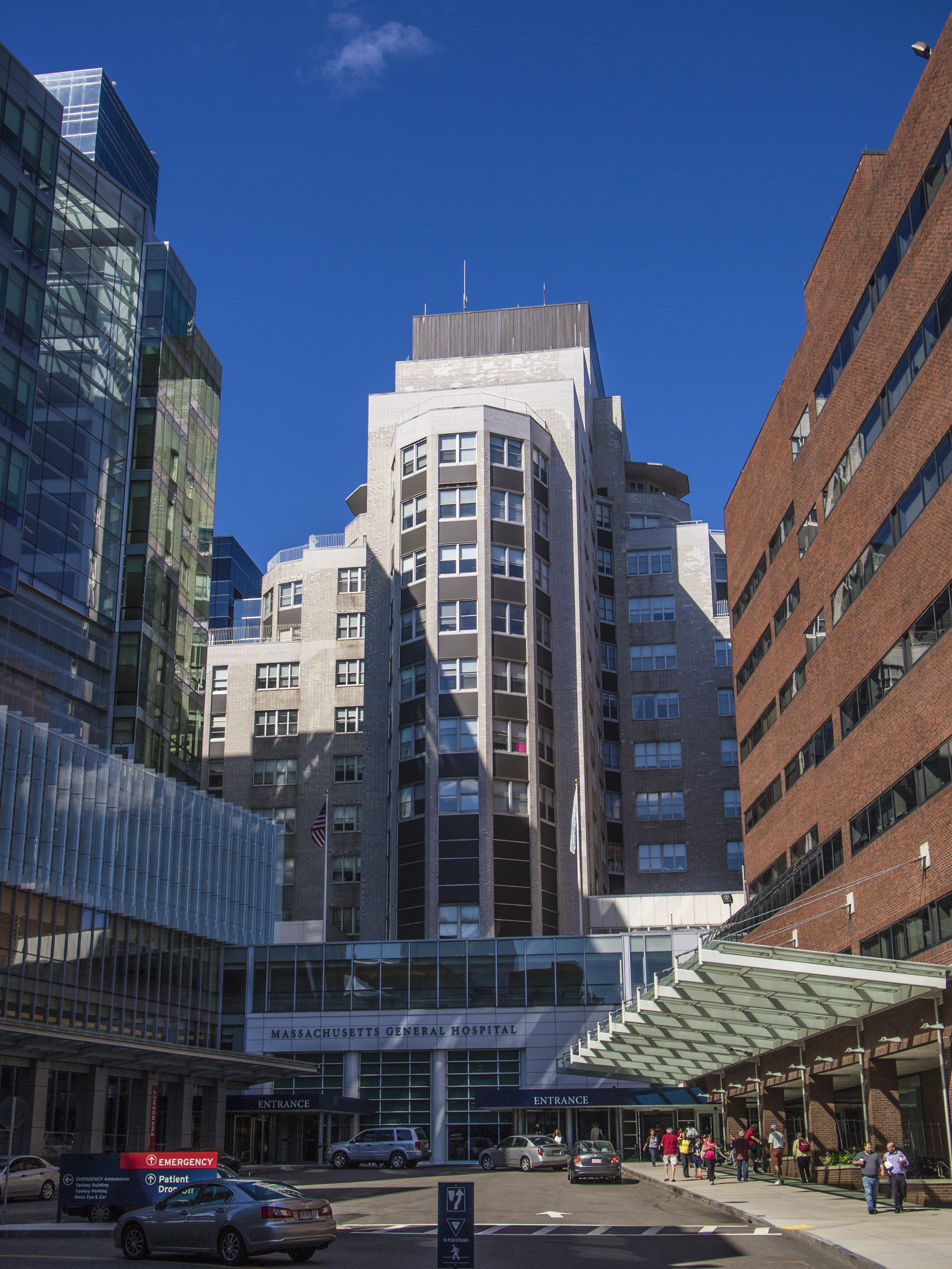 Massachusetts General Hospital